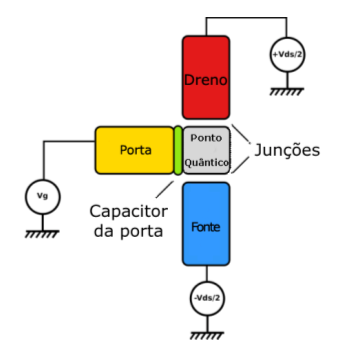 Single electron transistor diagram